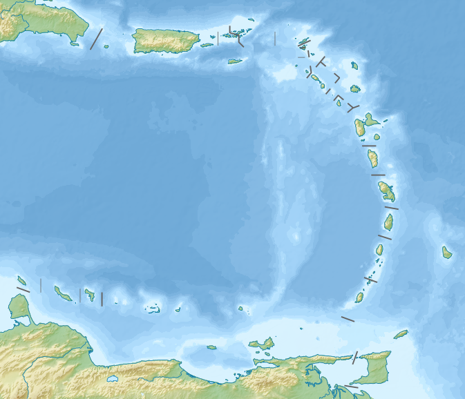 Relief map of the Lesser Antilles Equirectangular projection, N/S stretching 103 %. Geographic limits of the map: N: 19.2° N S: 9.7° N W: 70.5° W E: 59.1° W